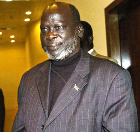 Original caption states, "Former Southern Sudan leader John Garang."